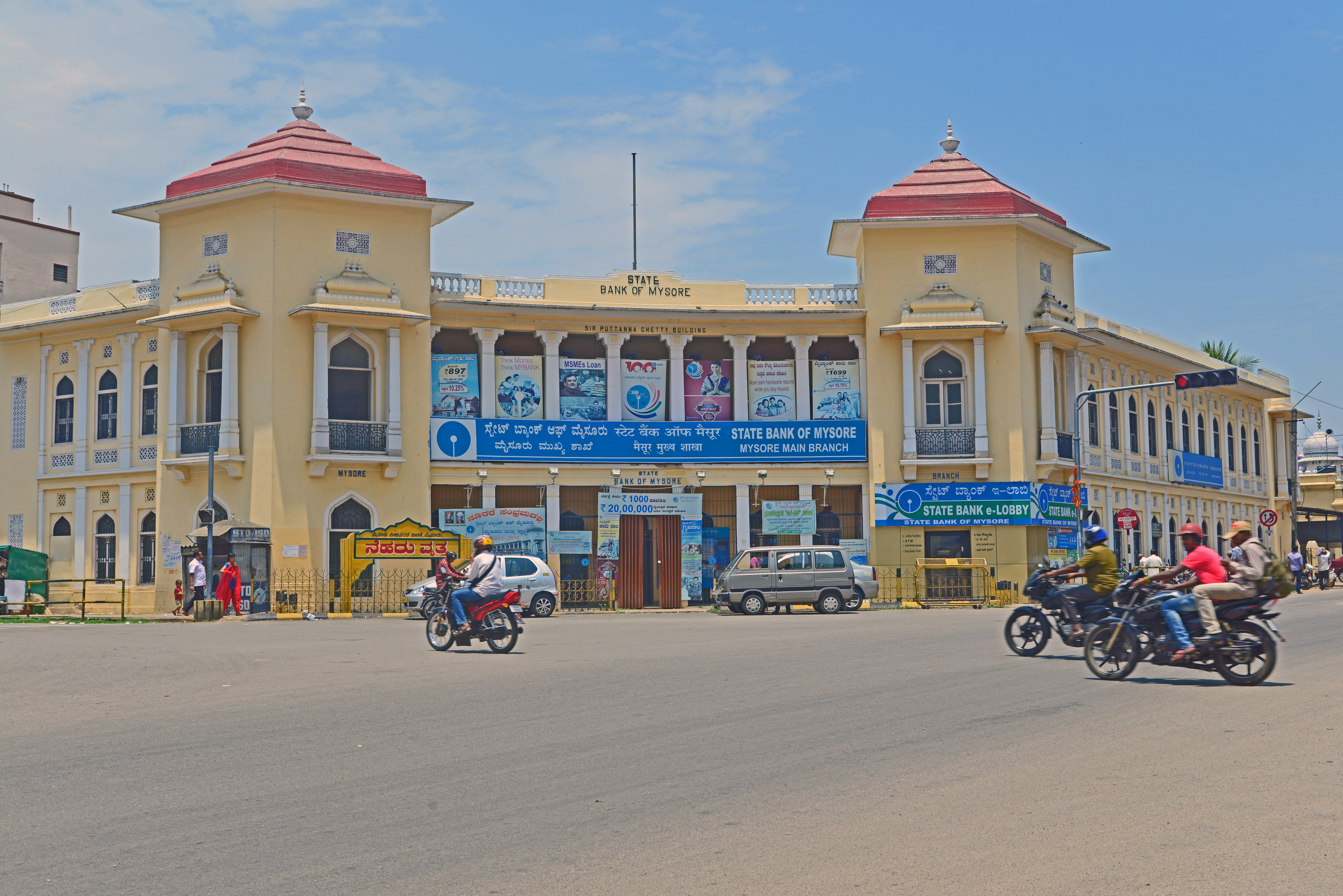 State Bank of Mysore building, Mysore